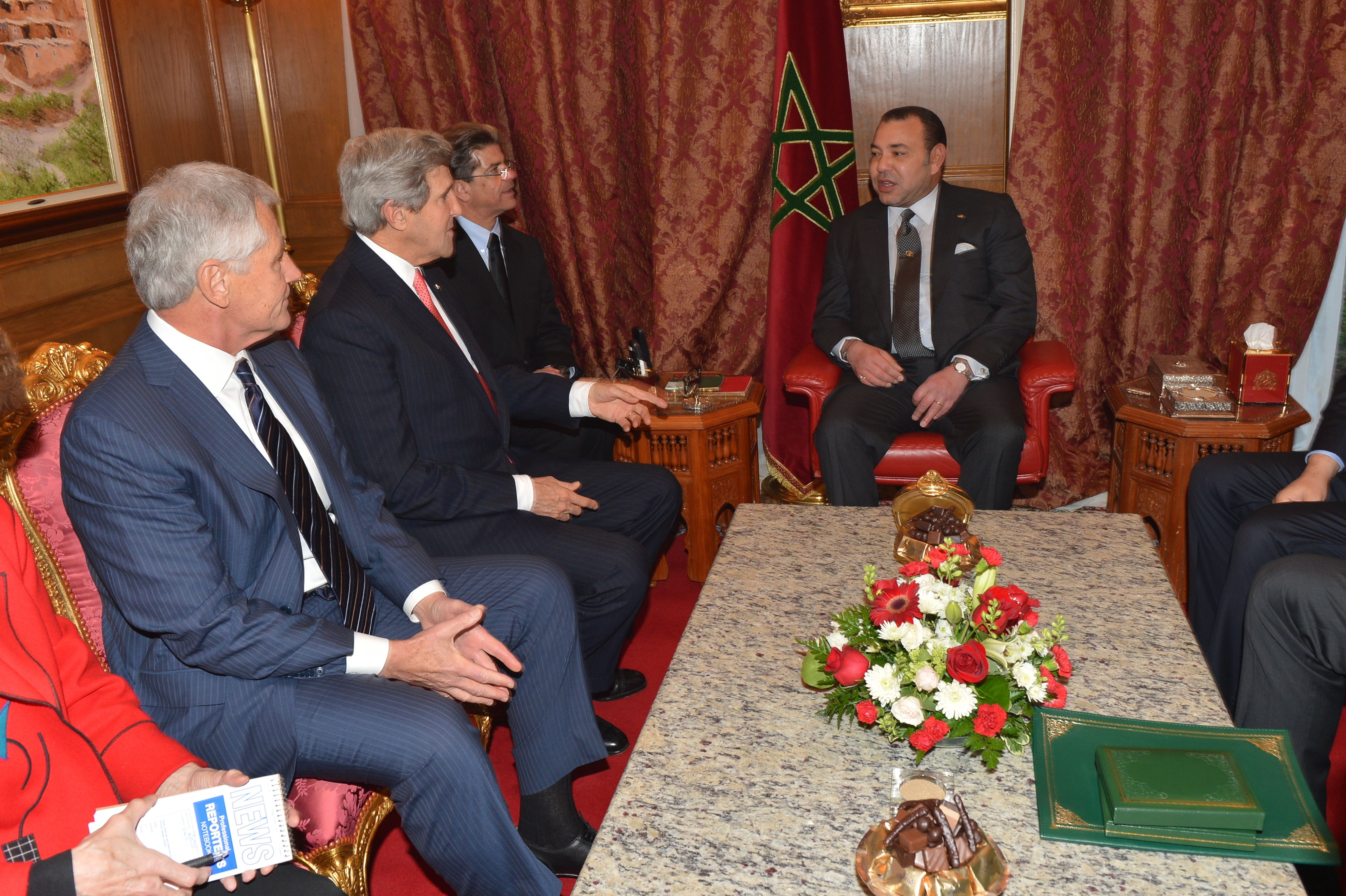 U.S. Secretary of State John Kerry and U.S. Secretary of Defense Chuck Hagel meet with King Mohammed VI of Morocco at the Moroccan Ambassador to the United States' residence in Washington, D.C., on November 20, 2013